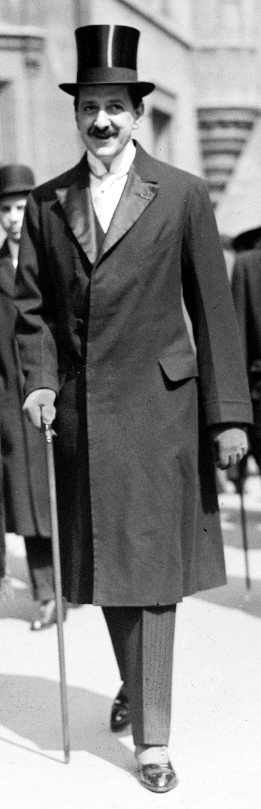 Frank Jay Gould